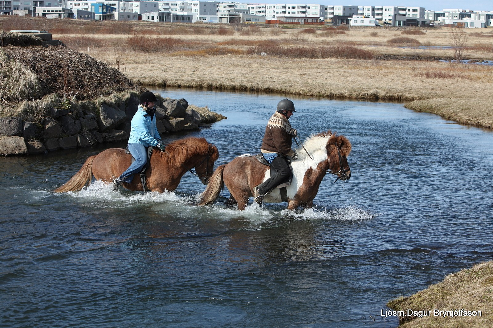 Icelandicv horses